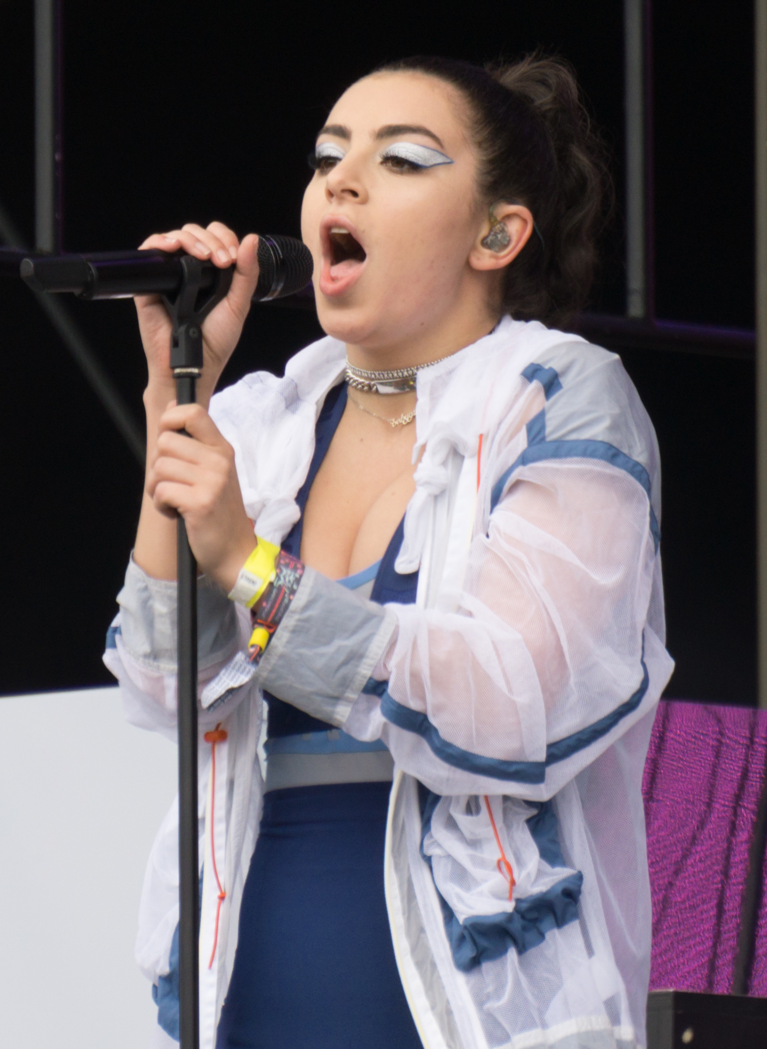 Charli XCX performing at Glastonbury 2017.